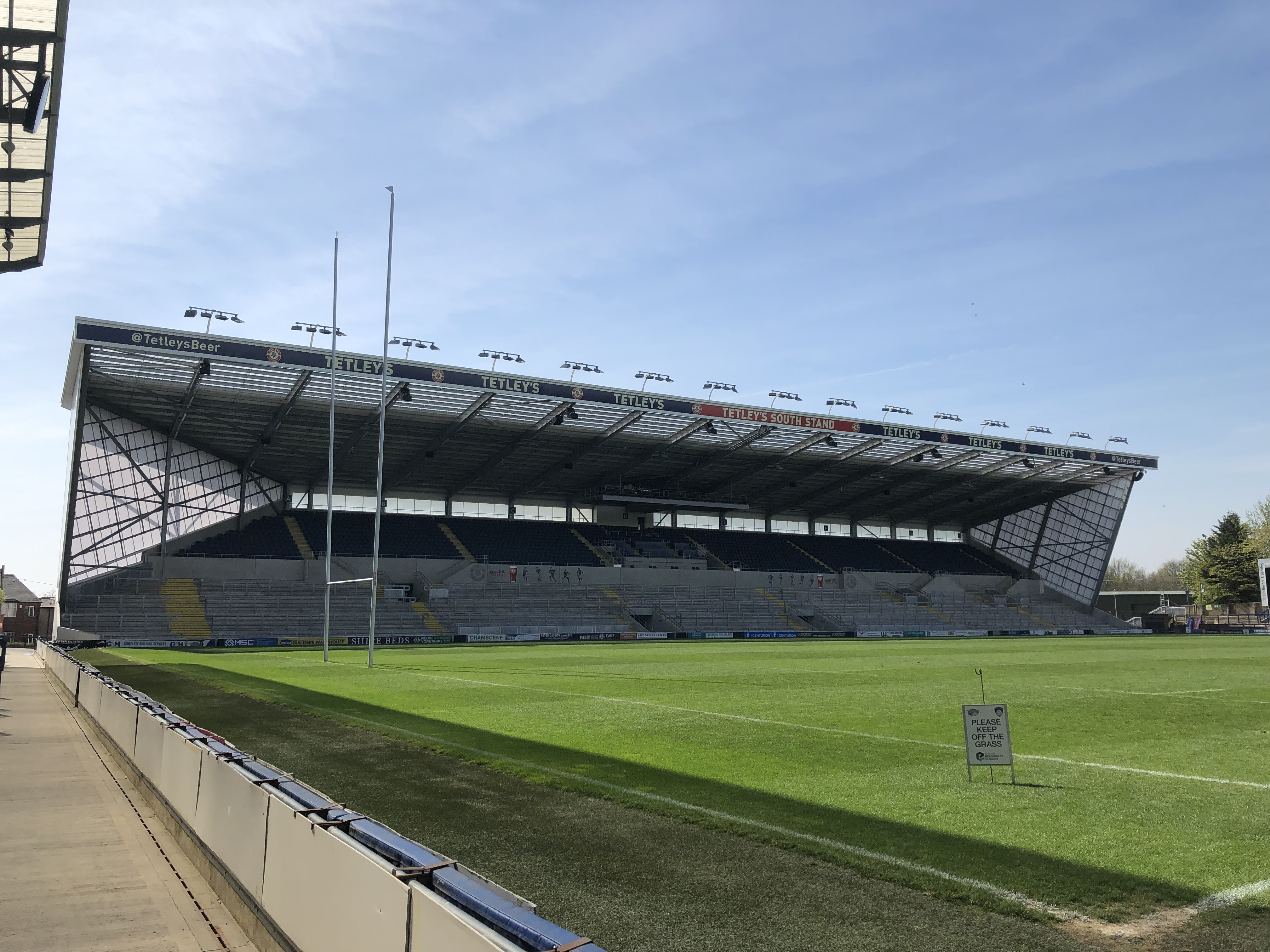 New South Stand at Headingley